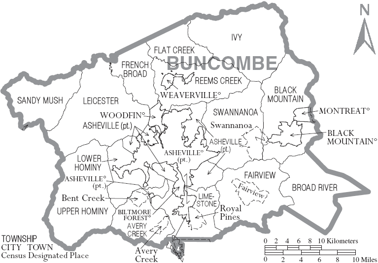 Map of Buncombe County, North Carolina, United States with township and municipal boundaries